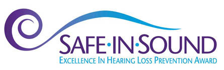 Logo of the program